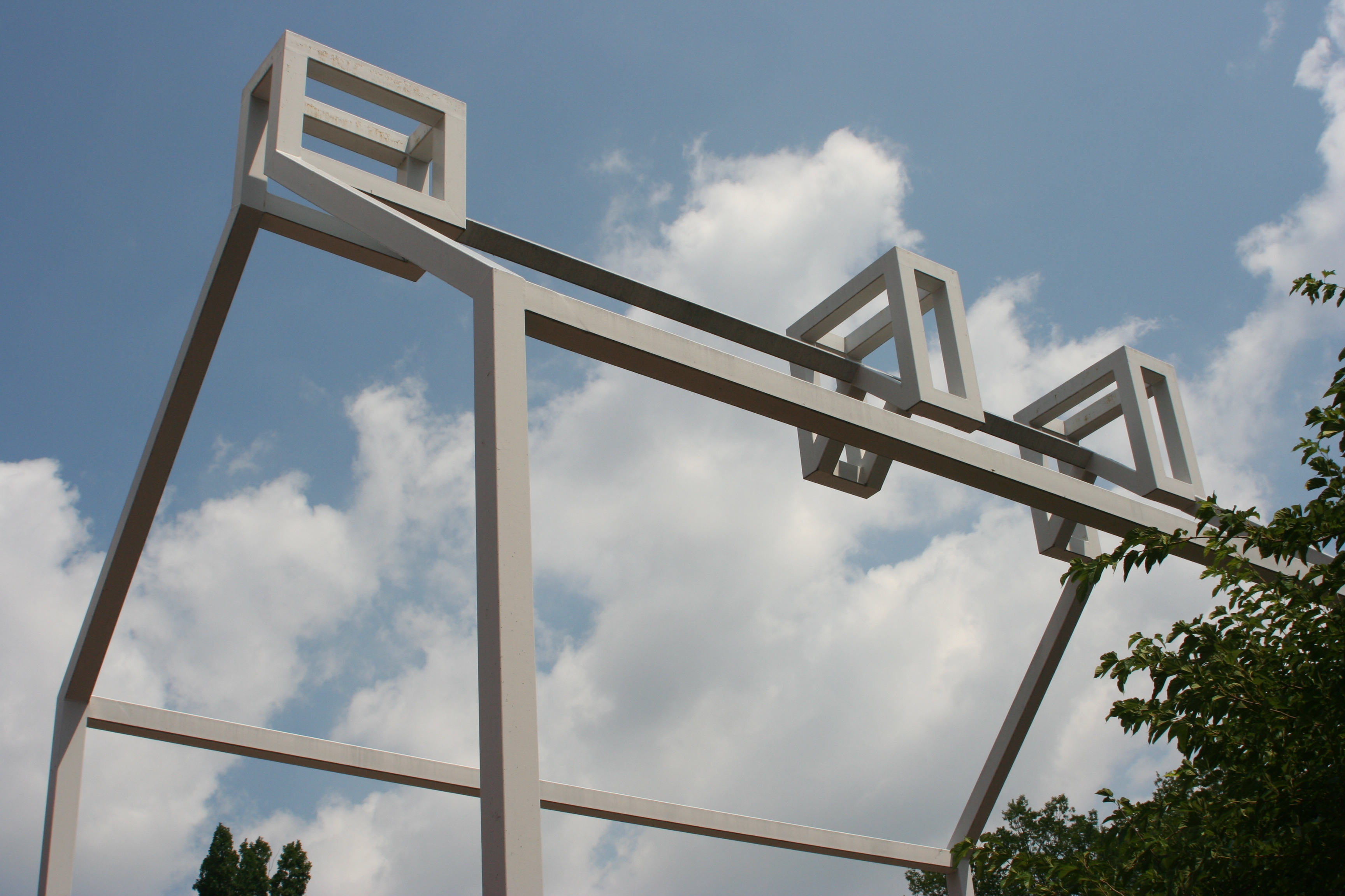 Outline of Benjamin Franklin's home in Philadelphia, PA (in Franklin Court)